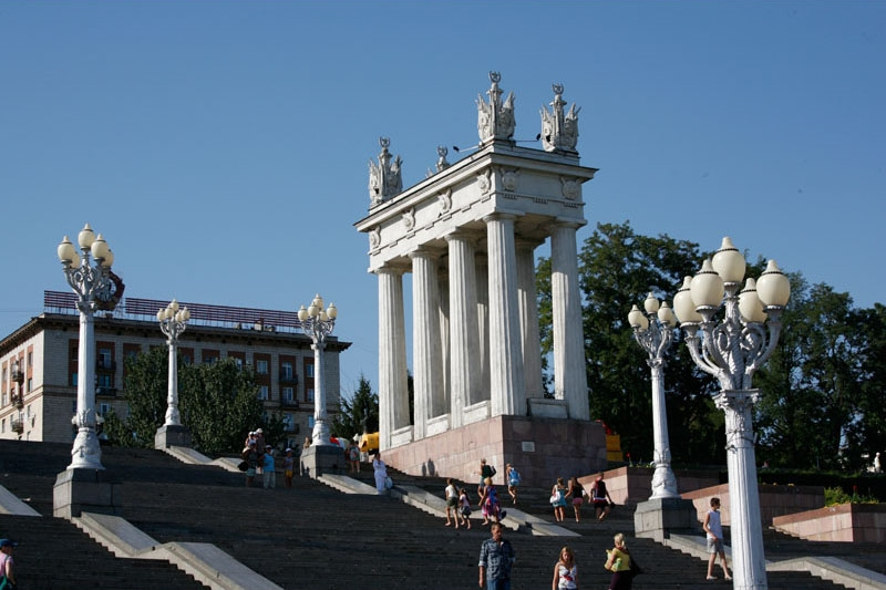 Propylaea in the central embankment of Volgograd.